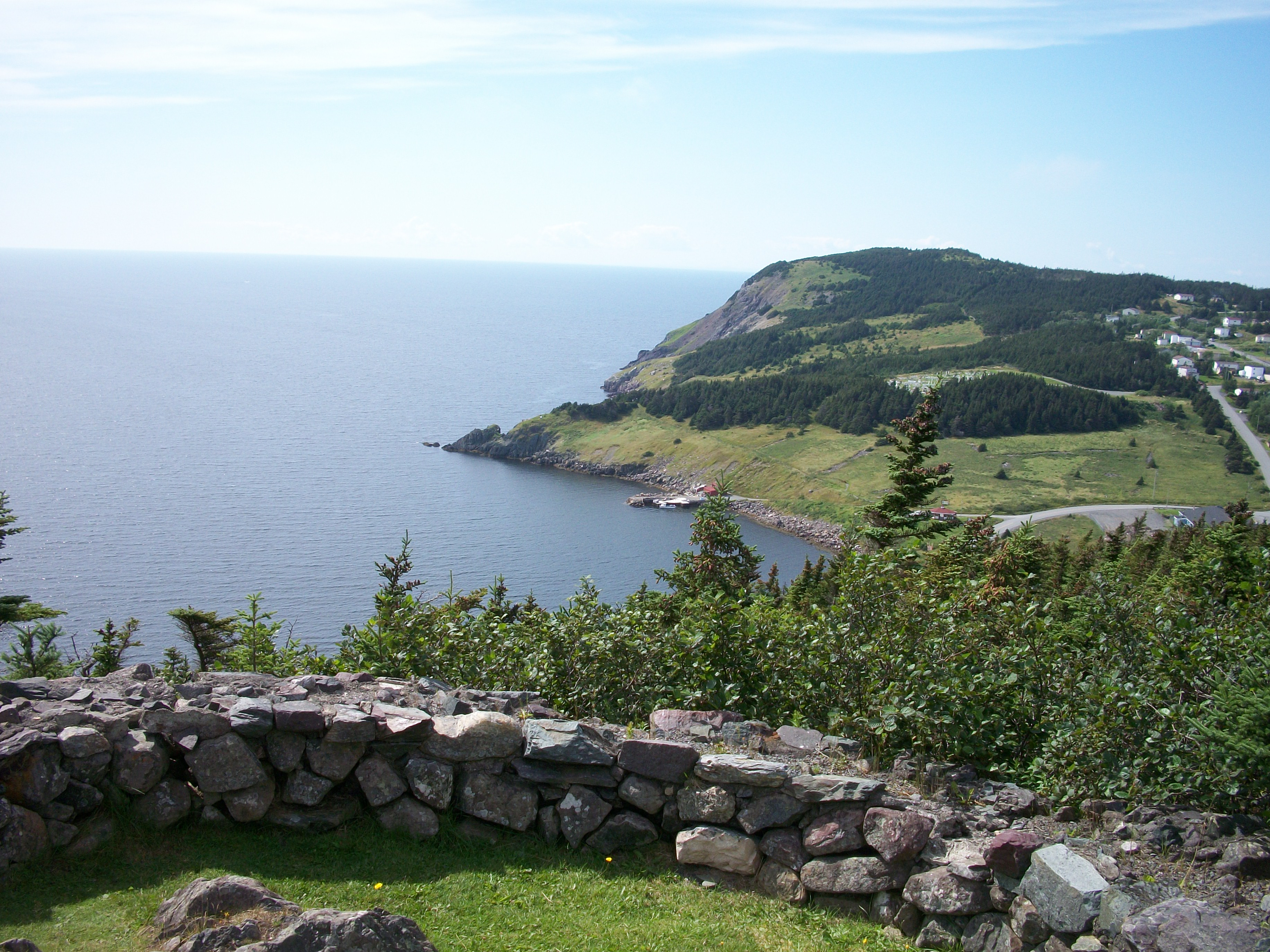 Castle Hill National Historic Site of Canada